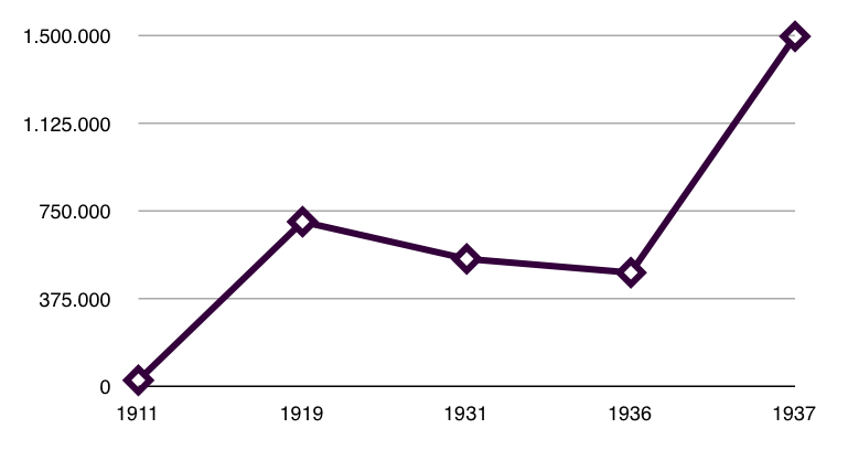 Graph of the number of CNT affiliates between 1911 and 1937